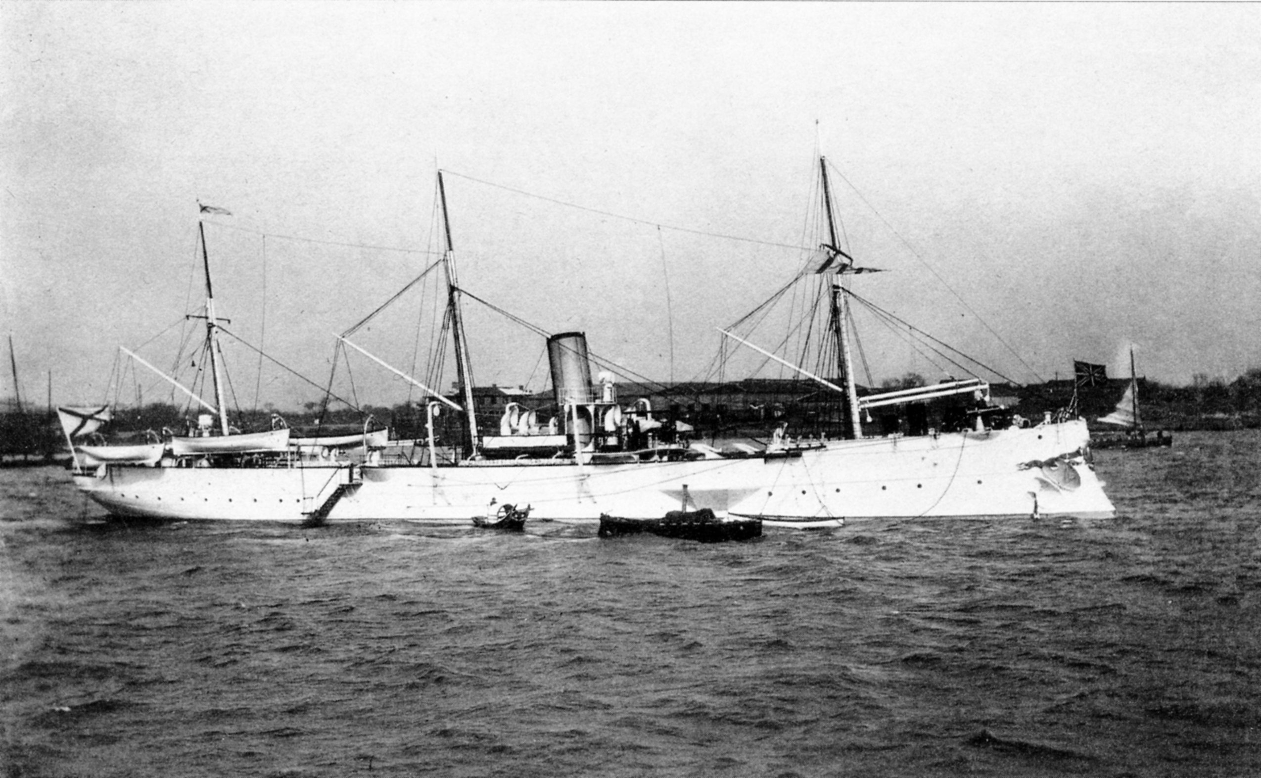 Imperial Russian gunboat Mandzhur after modernization.